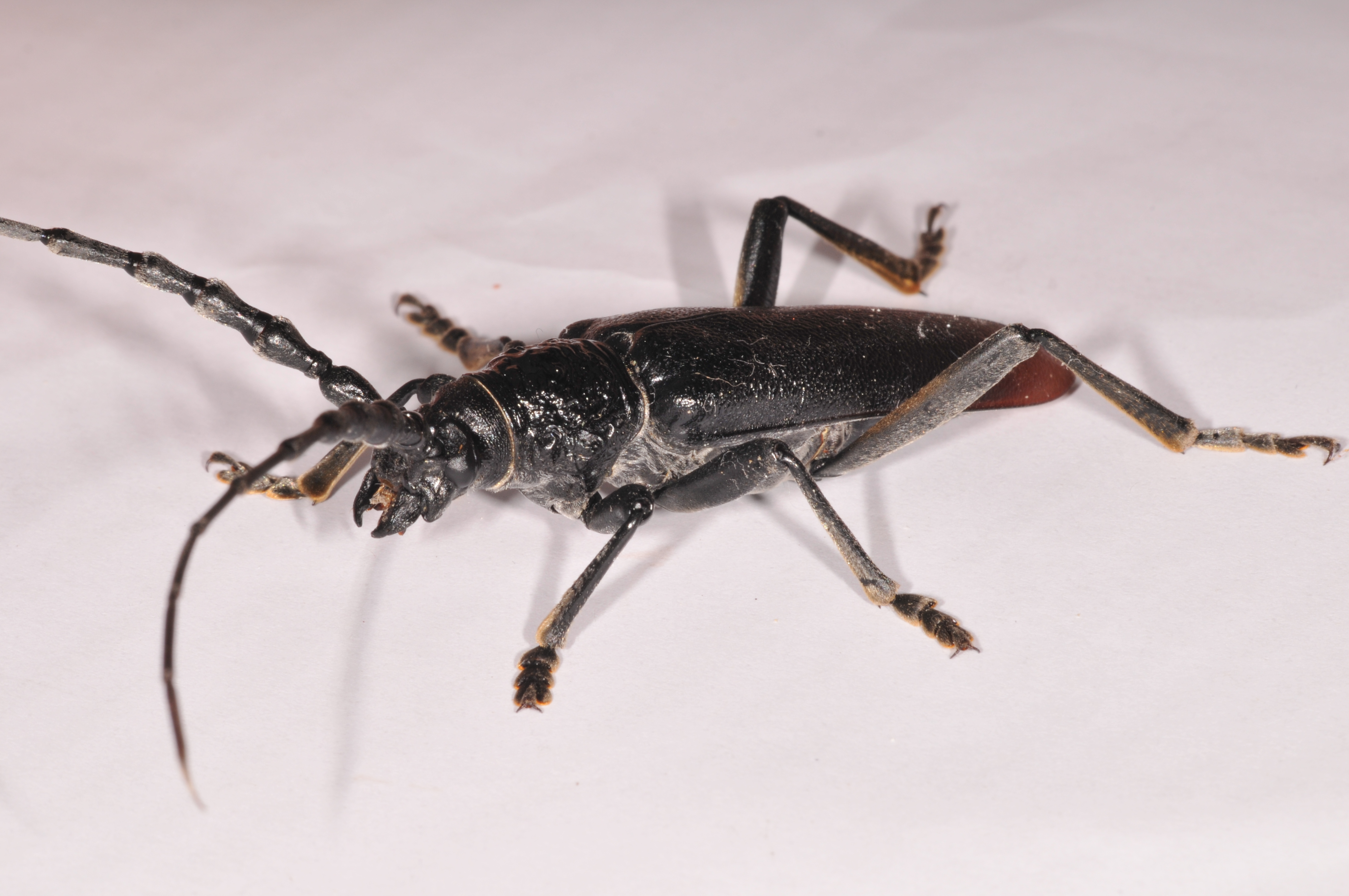 Cerambyx miles, male, Croatia, Istria, Brseč 15 km south Lovran, 45°10`23,80``N 14°13`37,25``E